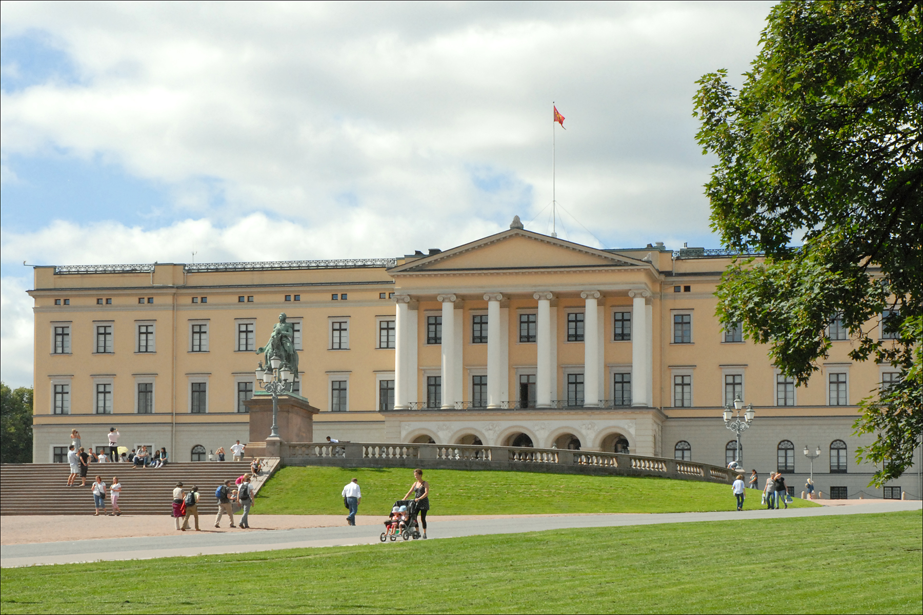 Image of the Royal Palace in the center of the capital of Norway, the City of Oslo.